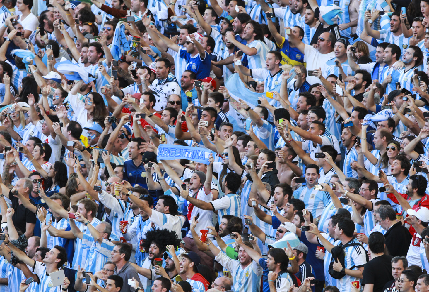 The final match of World Cup 2014 between Germany and Argentina 2014-07-13